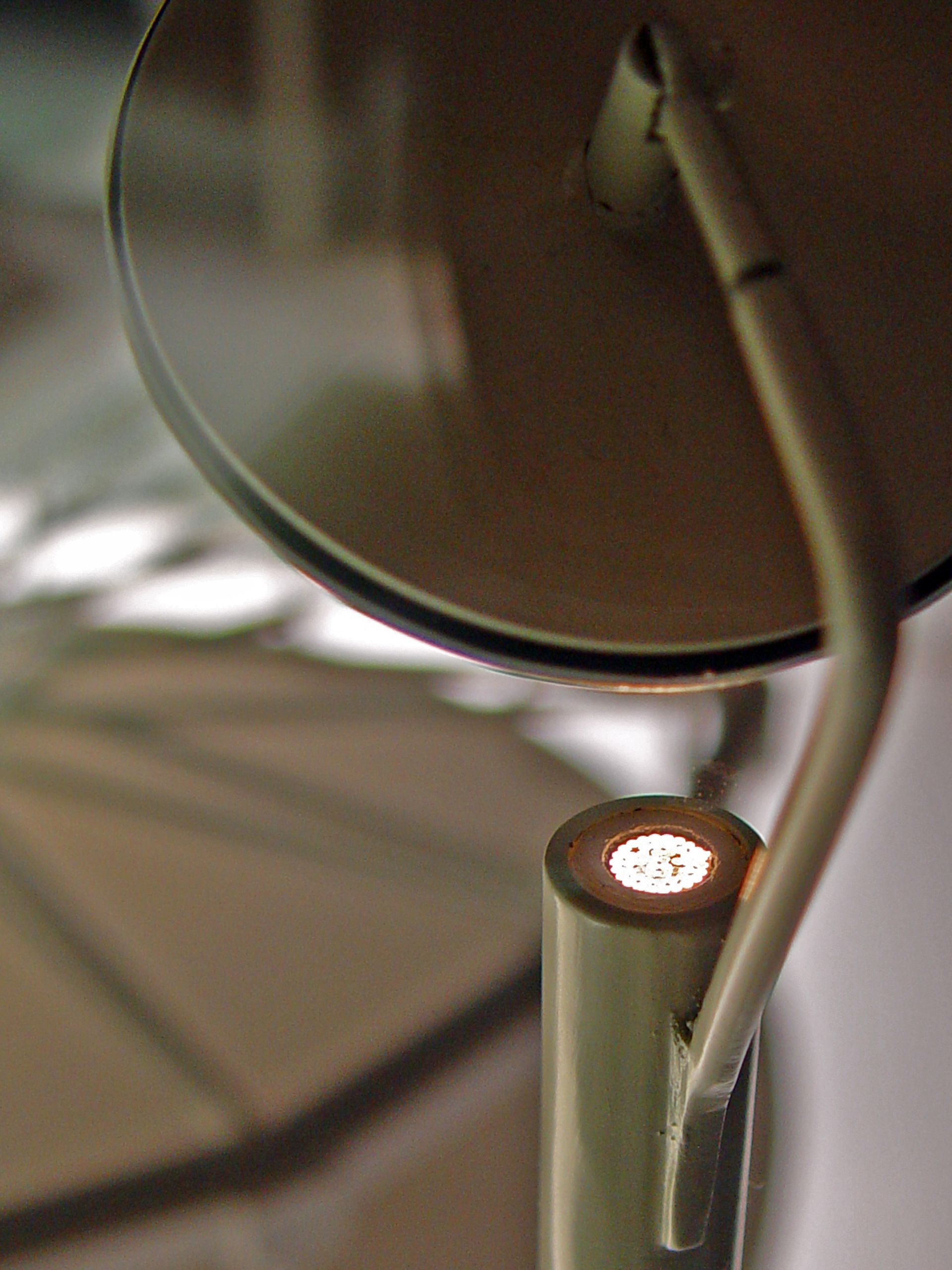 Light reflected from optical fiber illuminates exhibited model